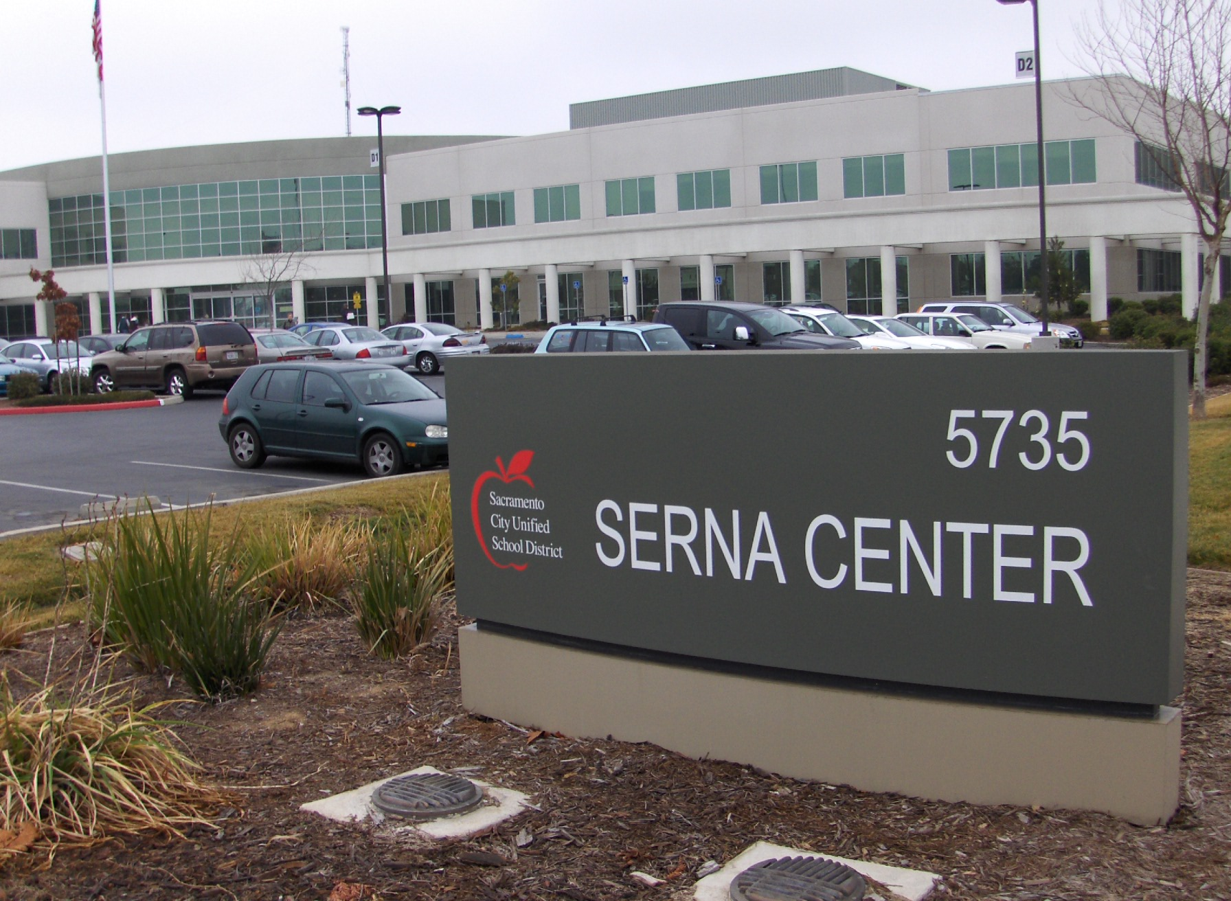 Joe Serna and Isabel Hernandez-Serna Center at the Sacramento City Unified School District. The Serna Center opened in 2003 and is named after the late Sacramento Mayor and Government Professor Joe Serna and the late university administrator and Ethnic Studies Professor Isabel Hernandez Serna.